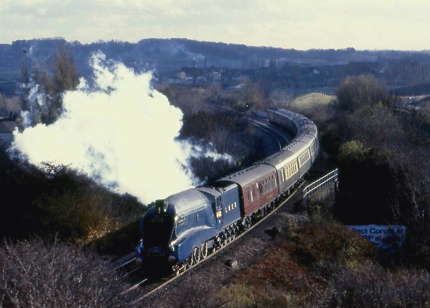 4468 Sheepbridge Bank,Chesterfield